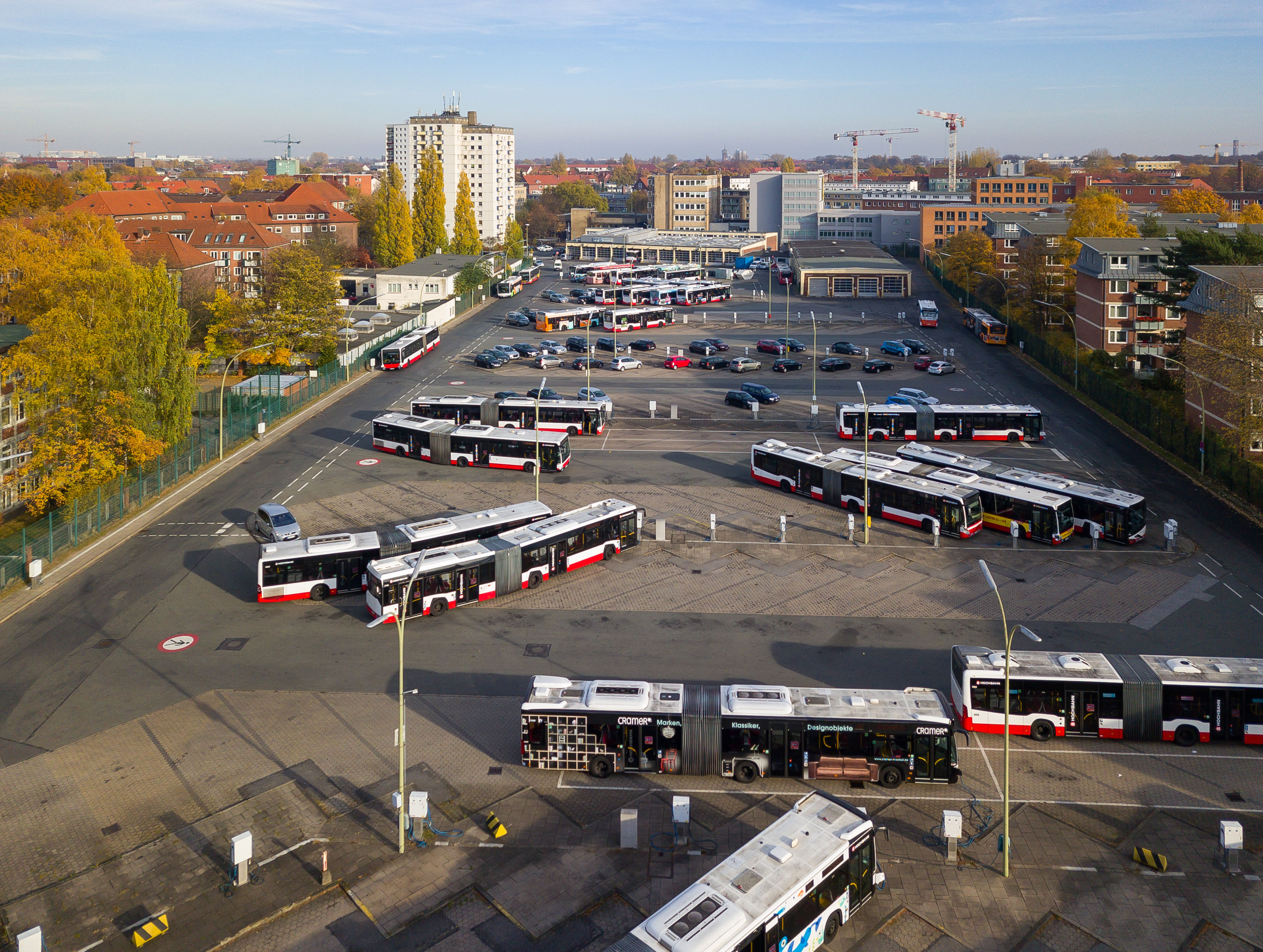 Mesterkamp bus depot, Barmberk-Süd, Hamburg, Germany. Shown in November 2018, only a few months before its closure.